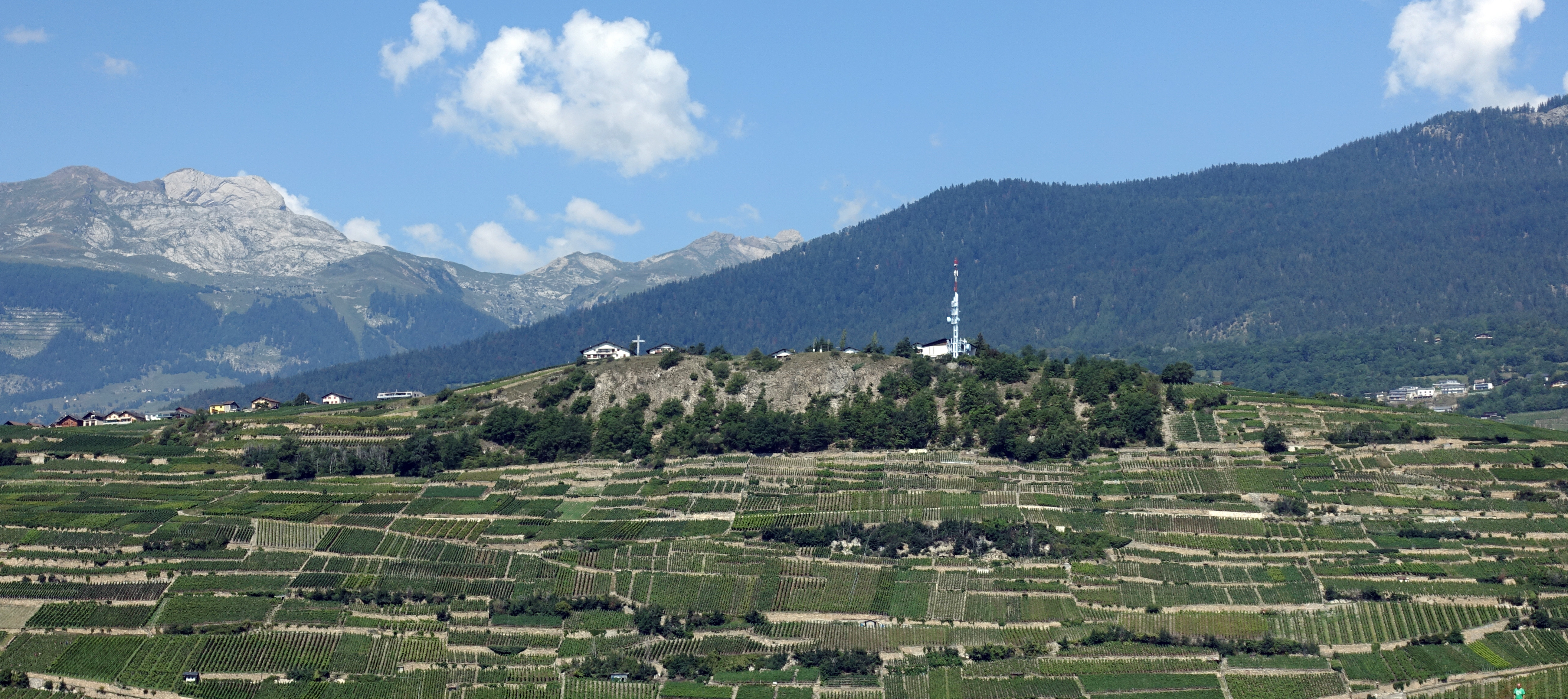 Savièse, Switzerland. View from Sion.